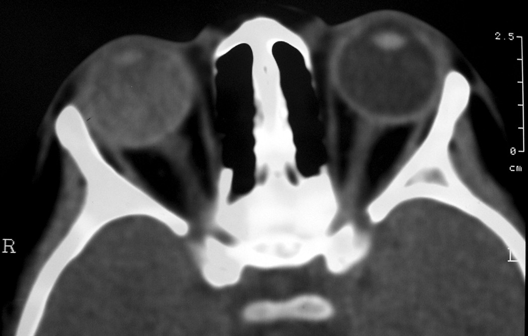 Computed Tomography. Total exsudative retinal detachment in the right eye.